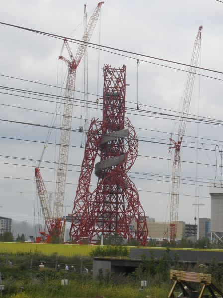 ArcelorMittal Orbit taken 27 July 2011